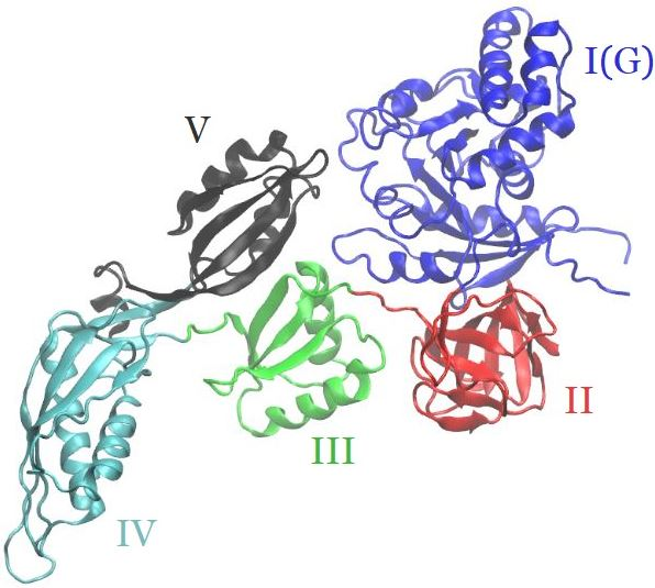 An image made using VMD of the protein elongation factor G (EF-G) in the POST state, at the end of tRNA translocation, with the 5 domains labeled. PDB ID: 4V5F Gao, Yong-Gui, et al. “The Structure of the Ribosome with Elongation Factor G Trapped in the Posttranslocational State.” Science, vol. 326, no. 5953, Oct. 2009, pp. 694–99. VMD: Humphrey, W., Dalke, A. and Schulten, K., "VMD - Visual Molecular Dynamics", J. Molec. Graphics, 1996, vol. 14, pp. 33-38.